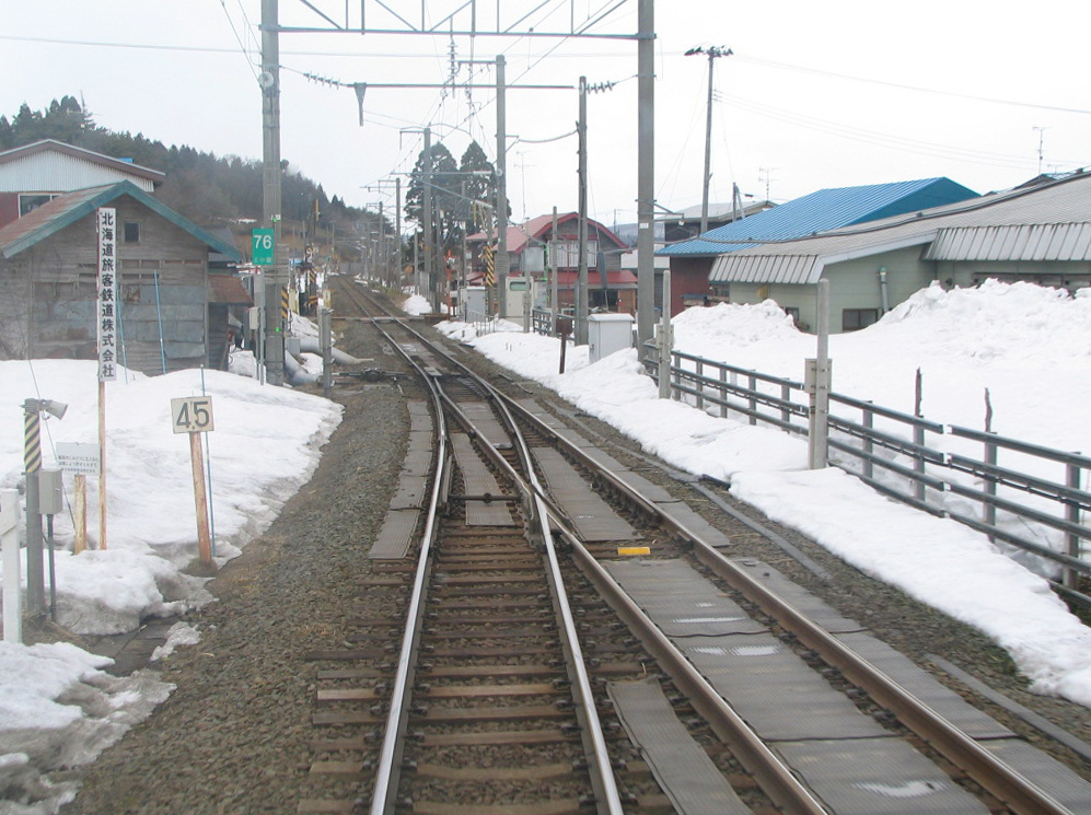 Shin-nakaoguni Signal box. The border of JR East and JR Hokkaido on left side.